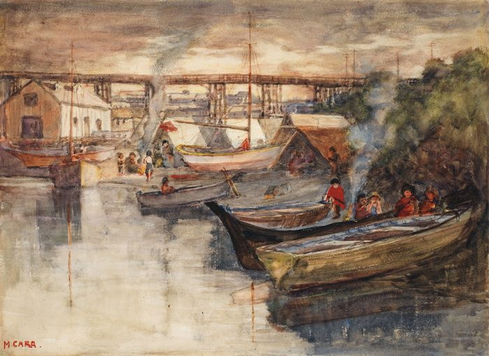 A painting by Emily Carr of the Senakw settlement of the Squamish people near the site of modern Burrard Street bridge.